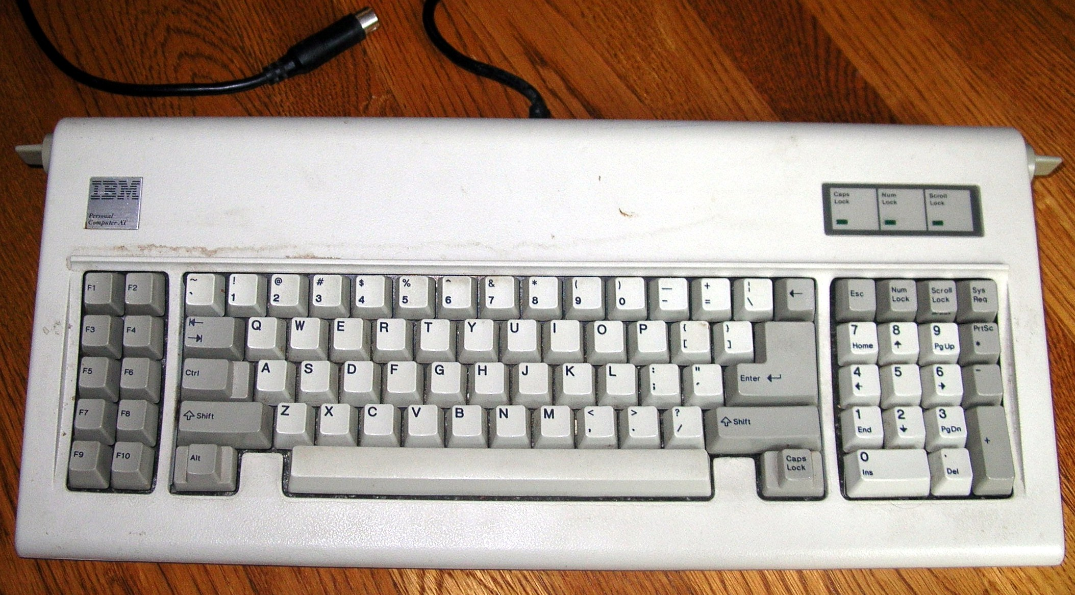 IBM Model F used as IBM AT Keyboard with 84 keys